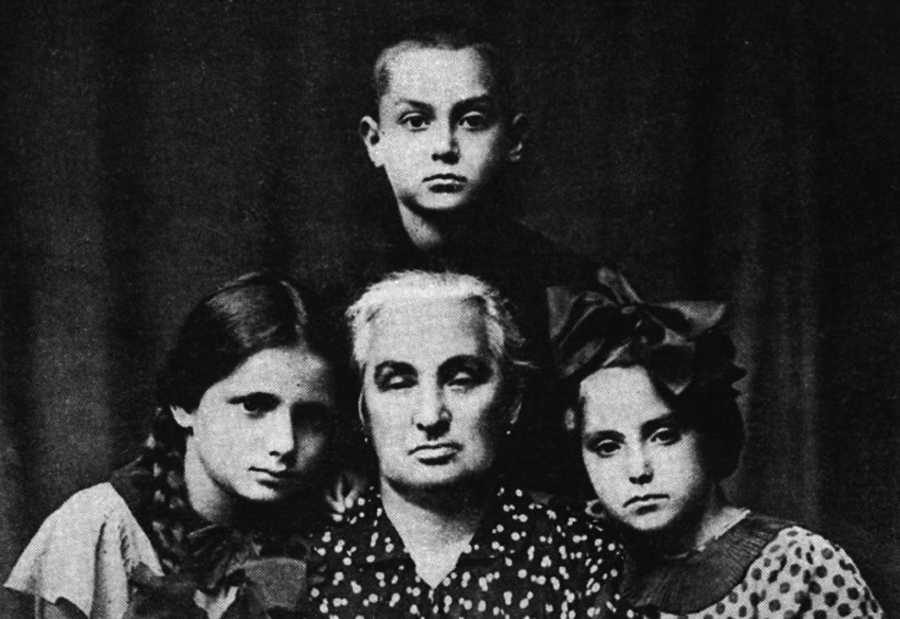 Yitskhok Rudashevski (1927-1943) avec sa grand-mère et ses deux cousines - Wilno - Pologne